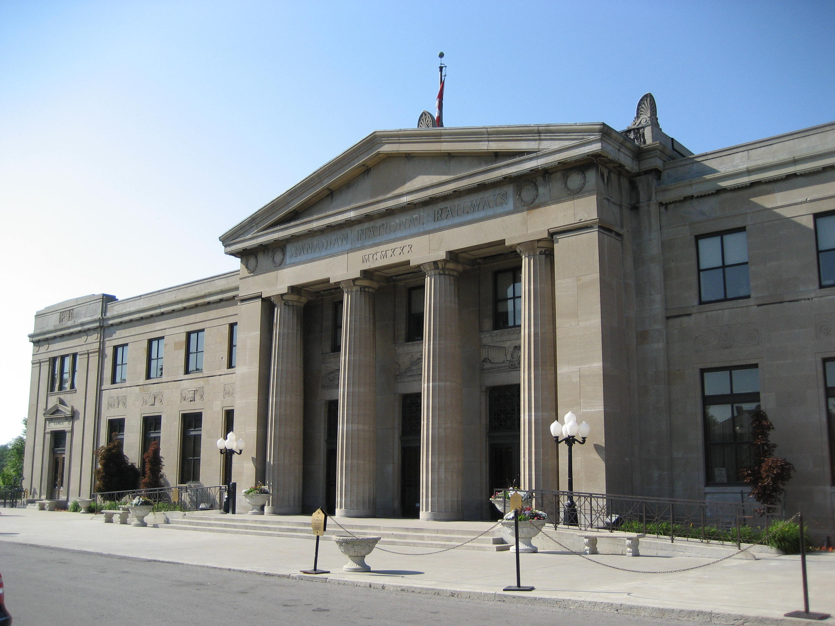 LIUNA Station, formerly Canadian National Railway building, James Street North, Hamilton, Ontario